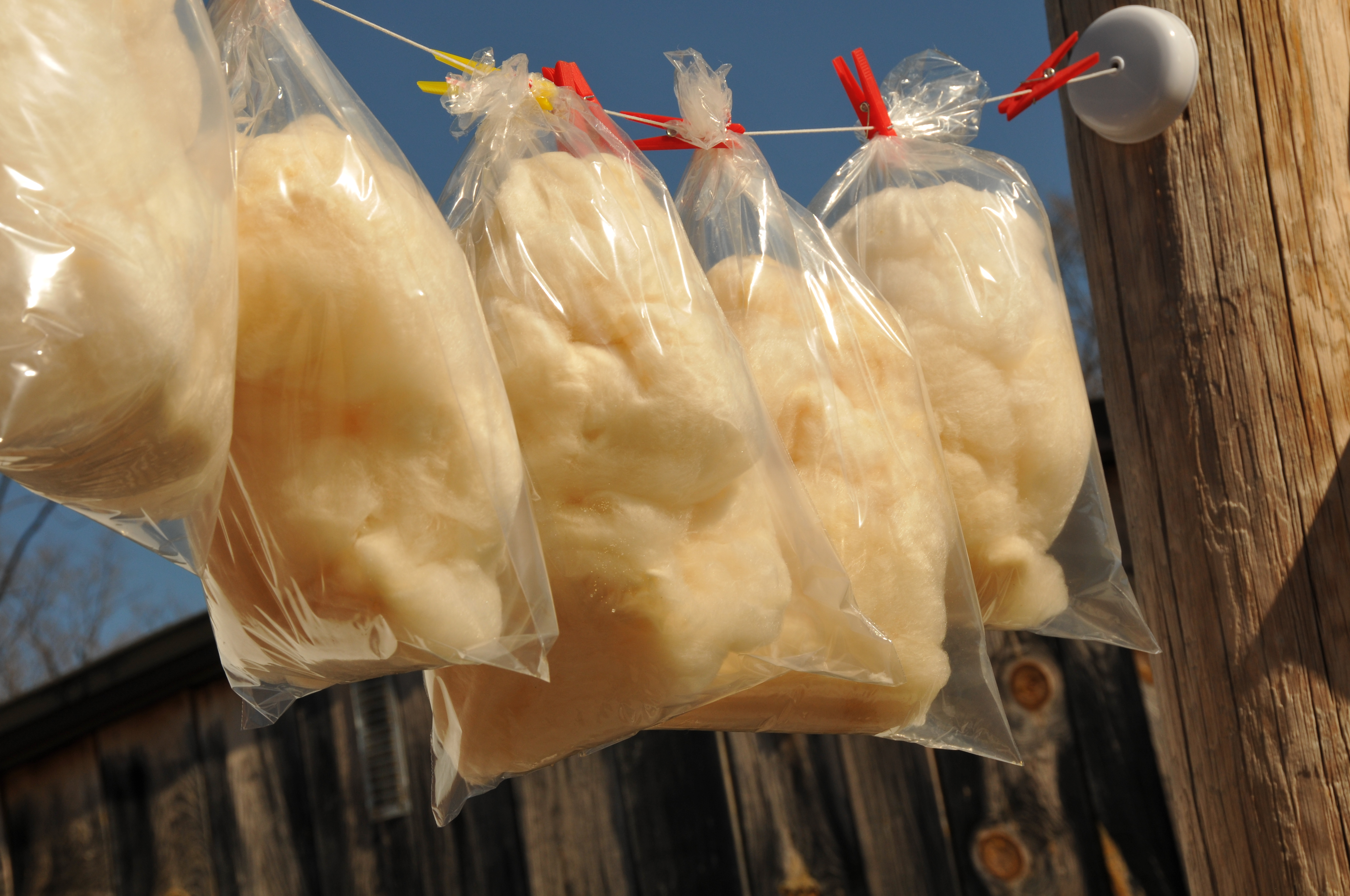 Maple-flavoured candy floss from the cabane à sucre (sugar shack), Pakenham, Ontario, Canada.